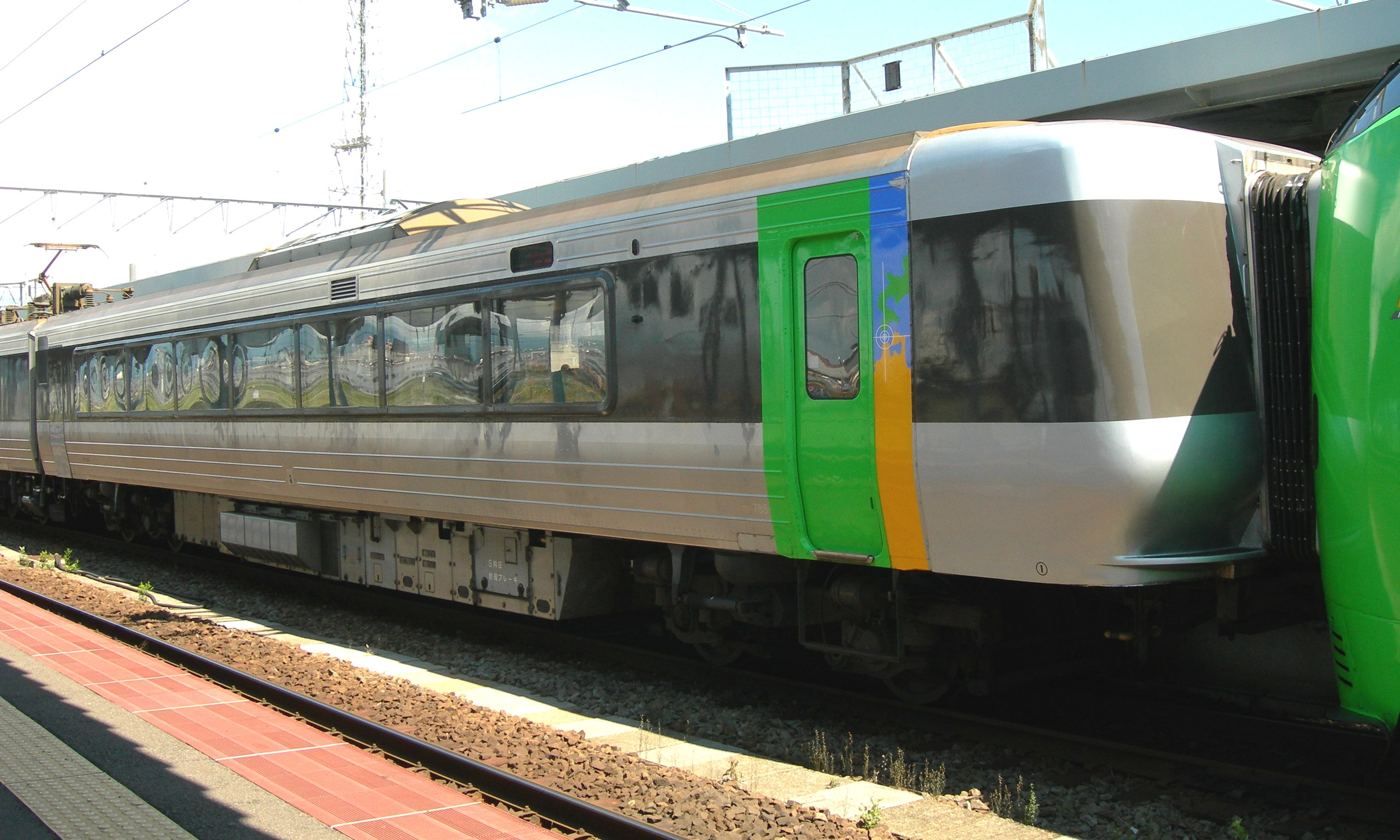 JR Hokkaido 785-300 series EMU car MoHa 785-303 at Hakodate Station on a Super Hakucho Service